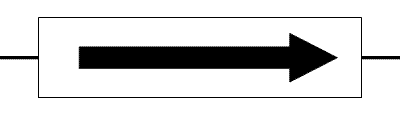 The optical circuit symbol of an optical isolator. uploaded drew the image